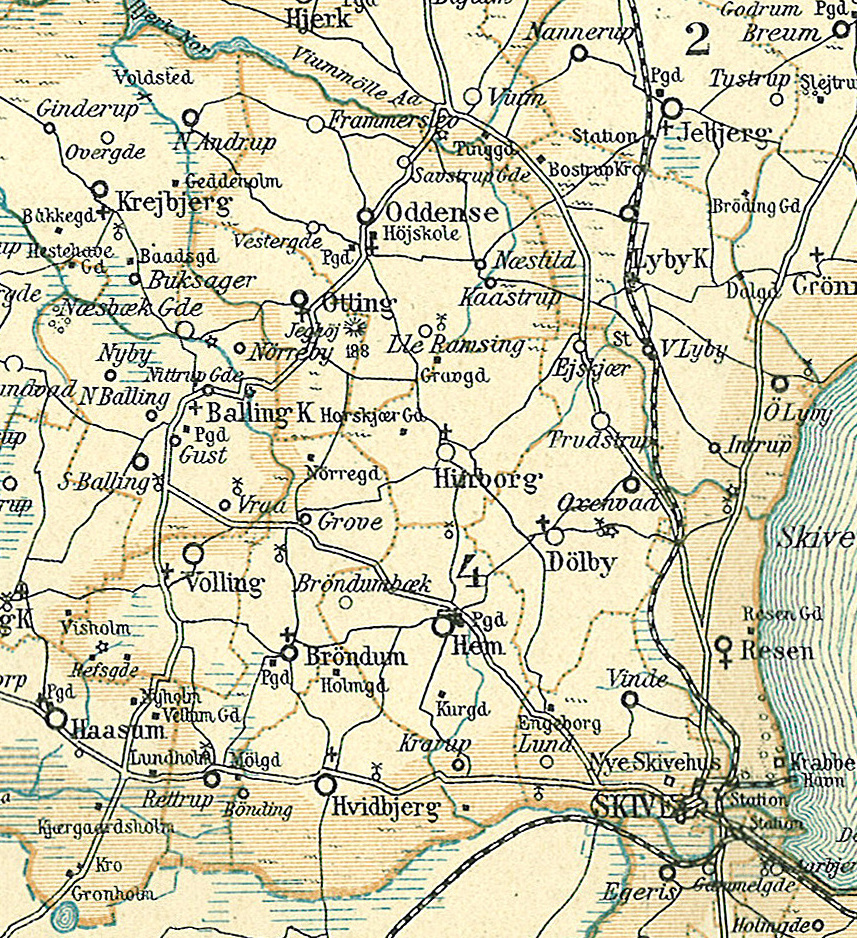 Map of Hindborg Herred ViborgAmt on Salling in the northwestern part of Viborg County in Denmark